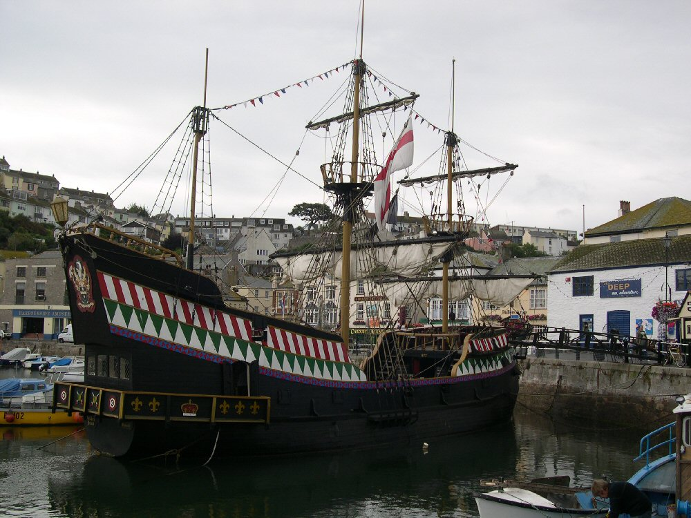 Replica of Golden Hind at Brixham.